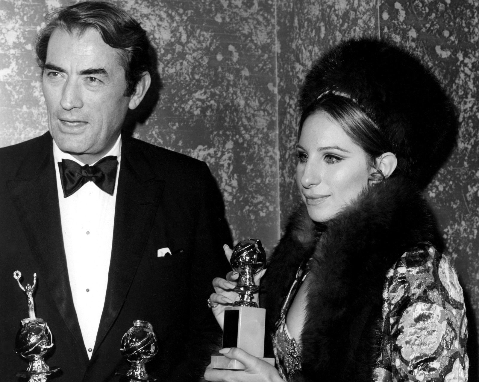 Gregory Peck & Barbra Streisand at the Golden Globe Ceremony, 1969